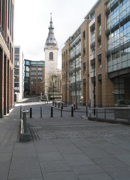 Looking along Distaff Lane to St Nicholas Cole Abbey